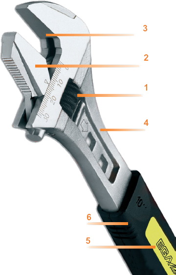 llave alavesa